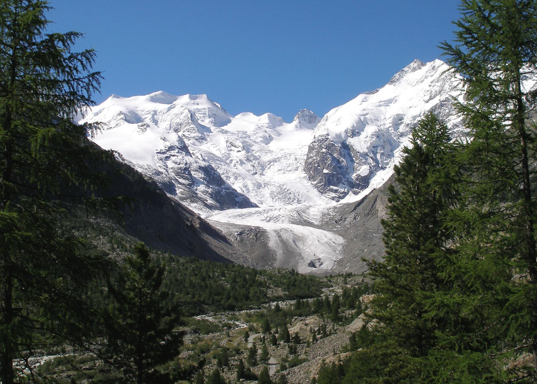 Piz Bernina and Morteratsch glacier, Graubünden